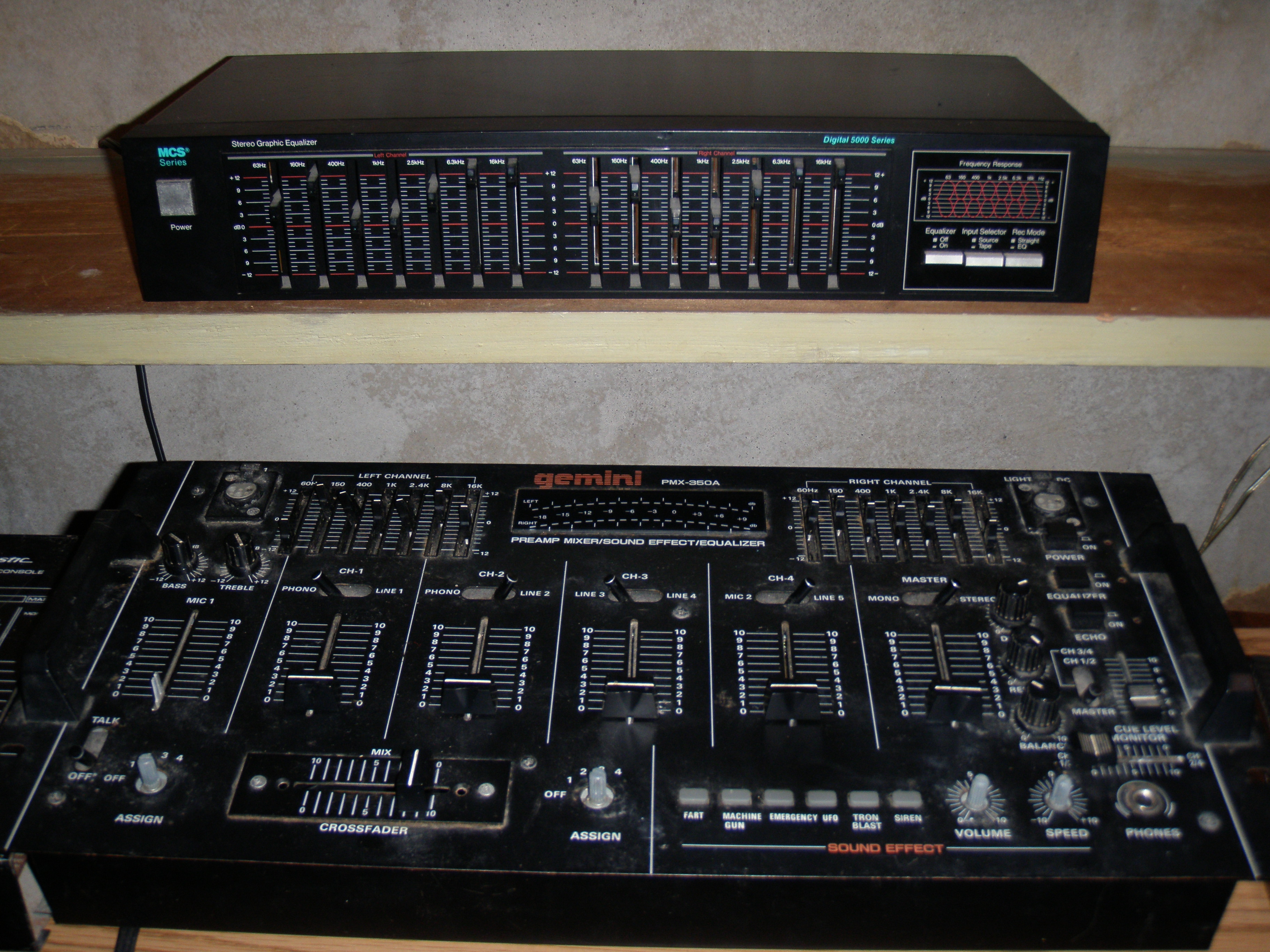 Gemini Sound Products mixing console and graphic equalizer